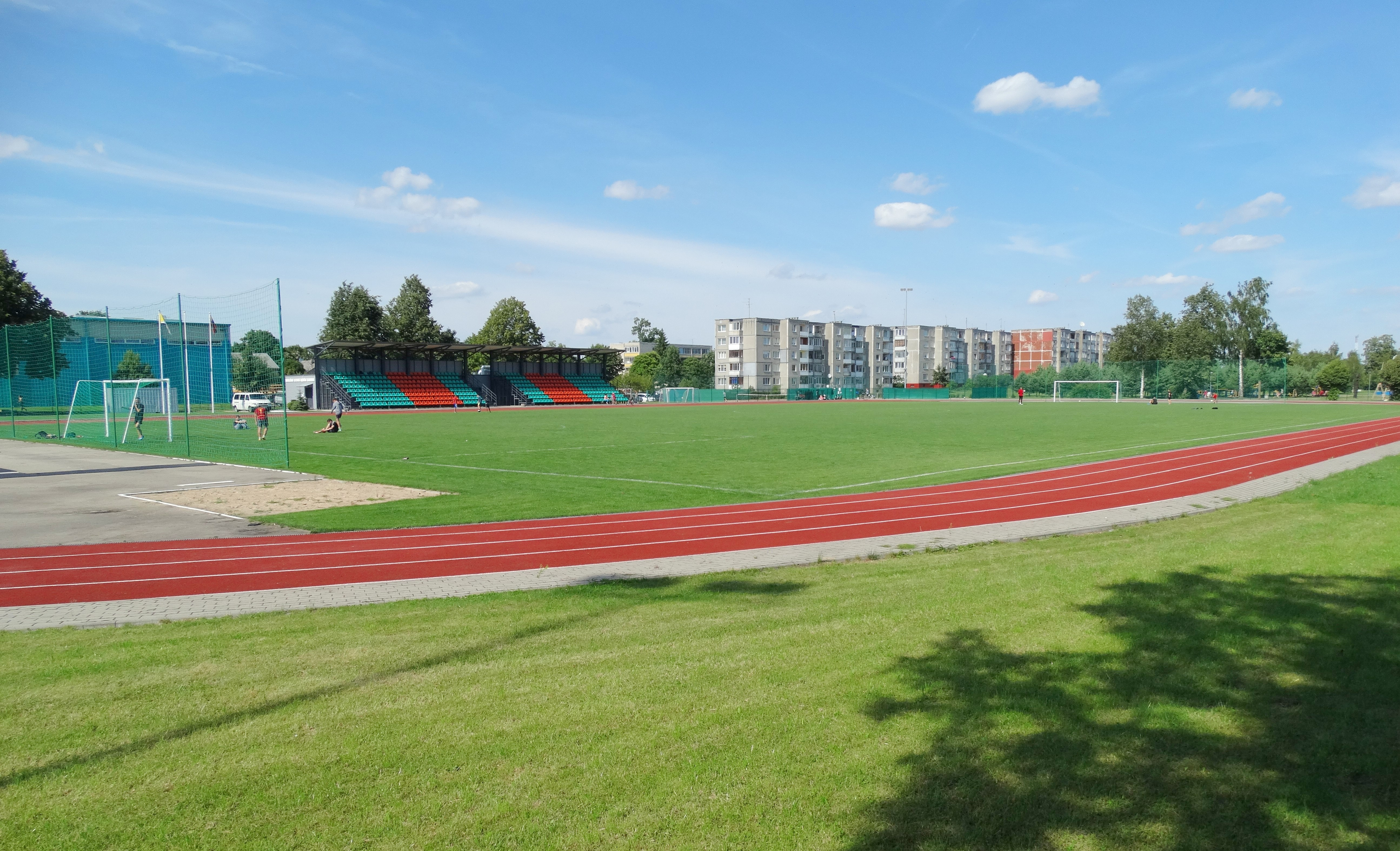 Central stadium, Radviliškis, Lithuania